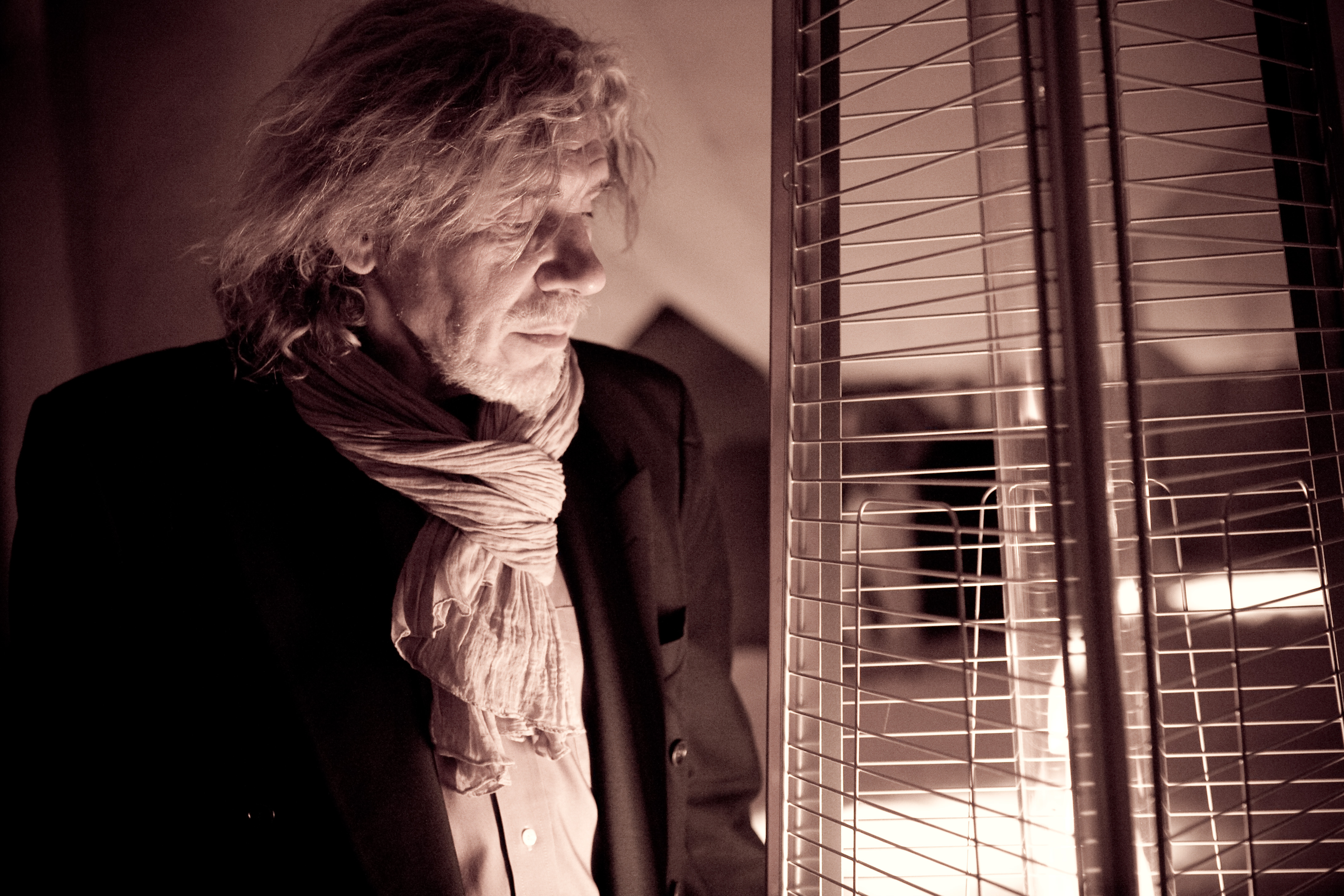 Theatre in Fields. Theodor Tezhik (artist). Halloween.